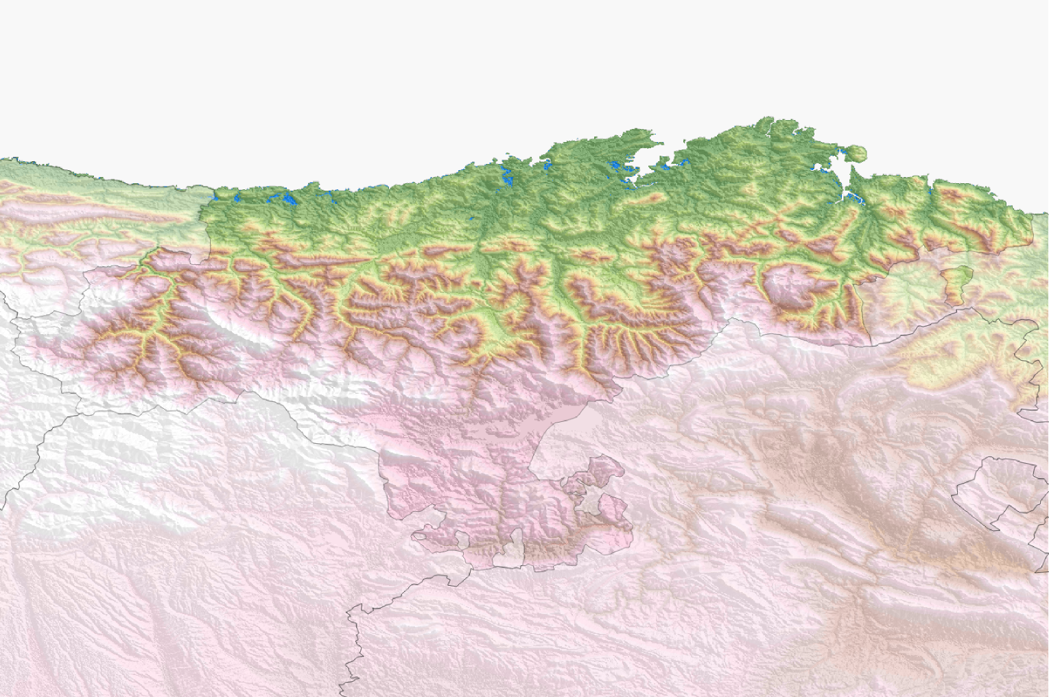 Physical map of Cantabria (Spain) with administrative borders Author: (Emilio Gómez Fernández) Date: Abril de 2005 Created with:: MapInfo Professional